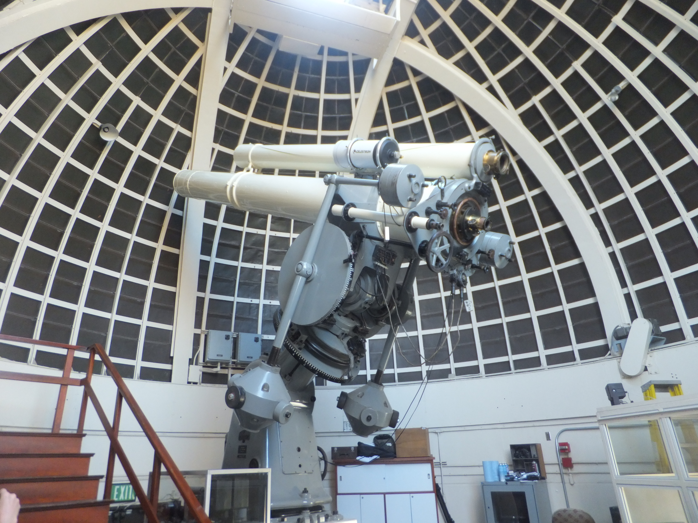 Griffith Observatory සිංහල: ග්‍රිෆිත් ආකාශවස්තු නිරීක්‍ෂණාගාරයේ ප්‍රධාන දුරේක්‍ෂය (ක්‍රි.ව. 2012දී)